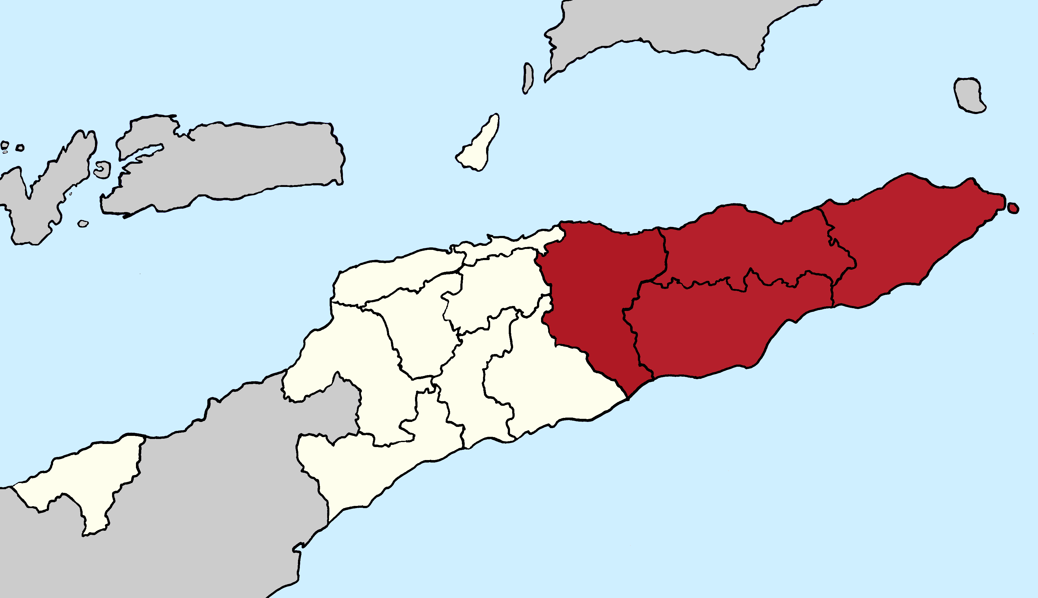 Map of East Timor showing the regions Loro Munu (white) and Loro Sae (red). Map after reformation of the municipalities borders 2015.